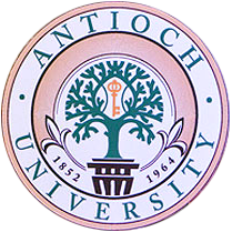 Antioch University logo. Cropped from photo